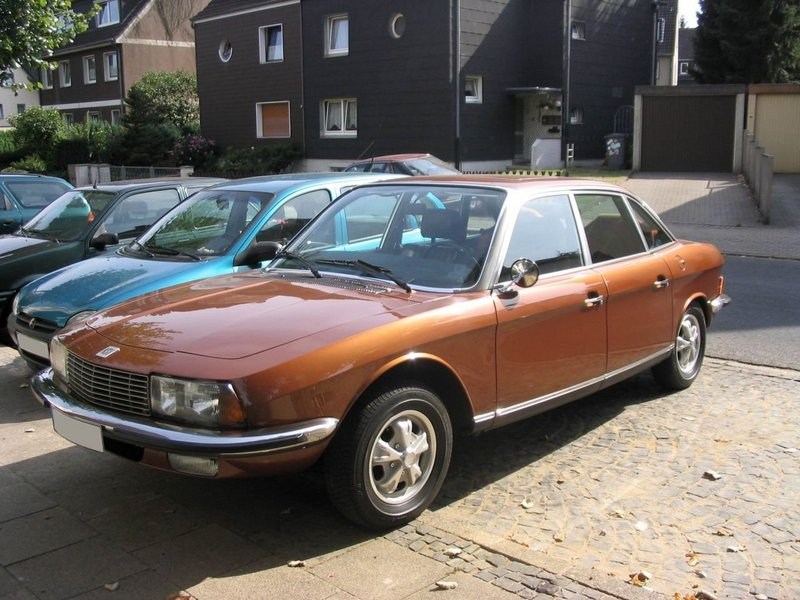 A 1975 NSU Ro80 from Dutch Wikipedia.